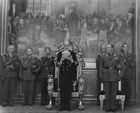 HM King Haakon VII of Norway delivering the speech from the throne in Stortinget in 1950. Crown prince Olav to the right. Photo by unknown photographer in the collection of Oslo Museum via DigitaltMuseum.